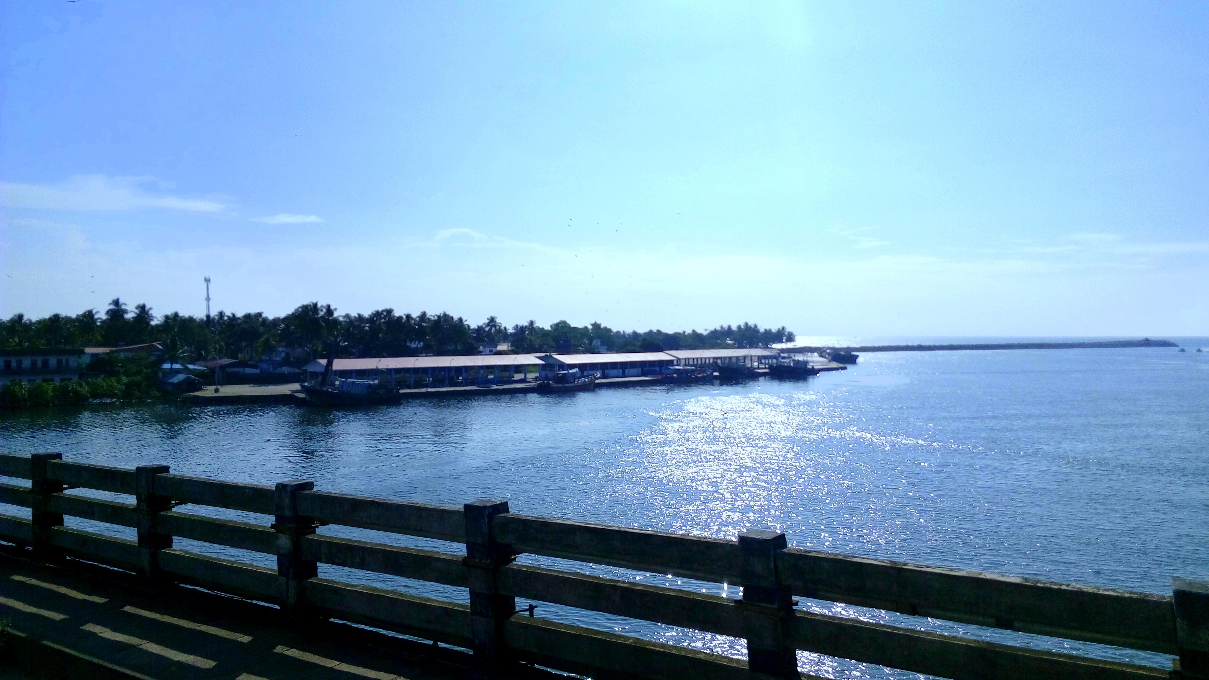 Neendakara is one among the twin ports of Kollam city, India